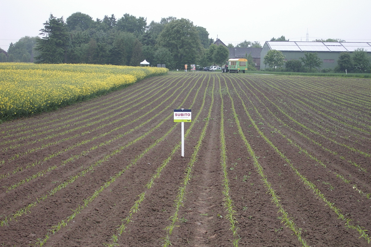 Maize Subito of plant breeding company Saaten-Union